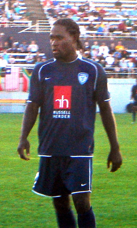 Minnesota Thunder player Leonel Saint-Preux in the second half of a 2-1 loss to Miami FC.